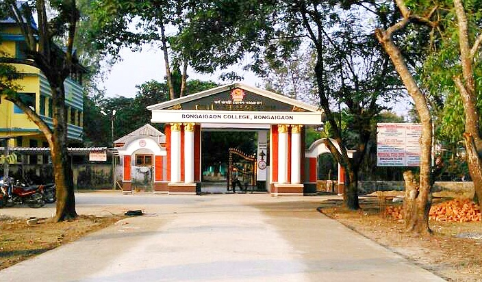 gate of bongaigaon college